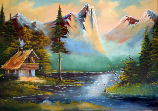 Illustration of kitsch